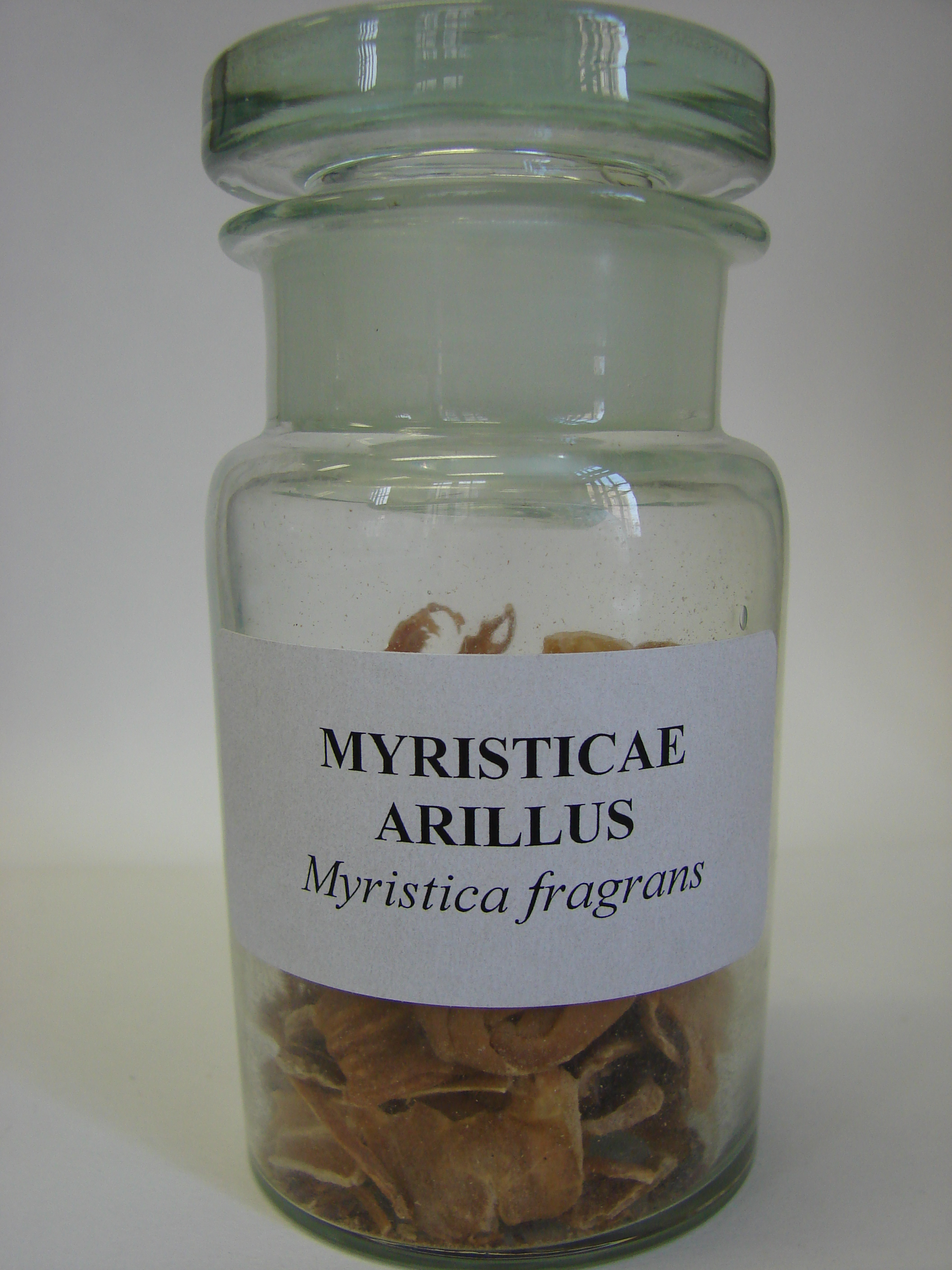 Myristicae arillus, Myristica fragrans